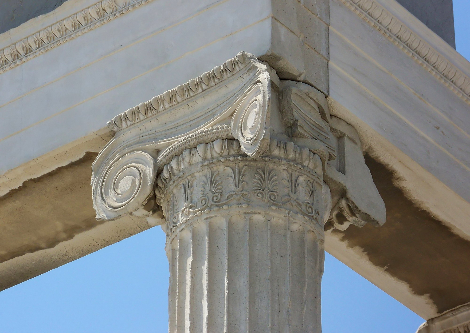 Close-up on a capital of the Erechteum on the Acropolis of Athens, Greece.